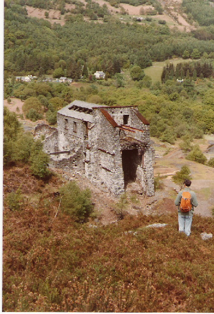 Klondyke Lead Mine. Aerial Ropeway Terminus.